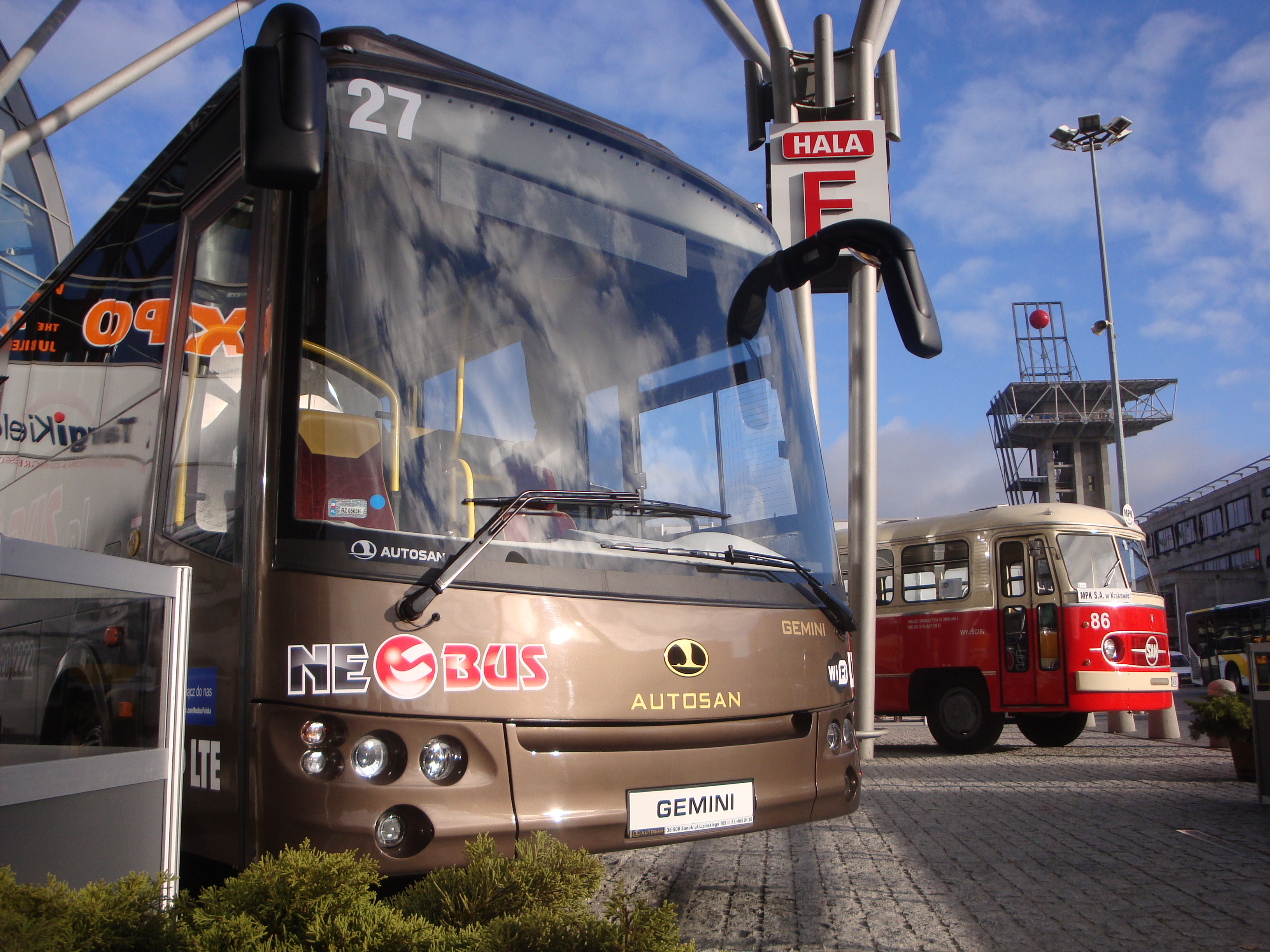 Autosan A0808T Gemini bus (#27, reg. RZ 0563H) in Kielce, Poland. Built 2012, Neobus from Niebylec operator. Transexpo 2012.